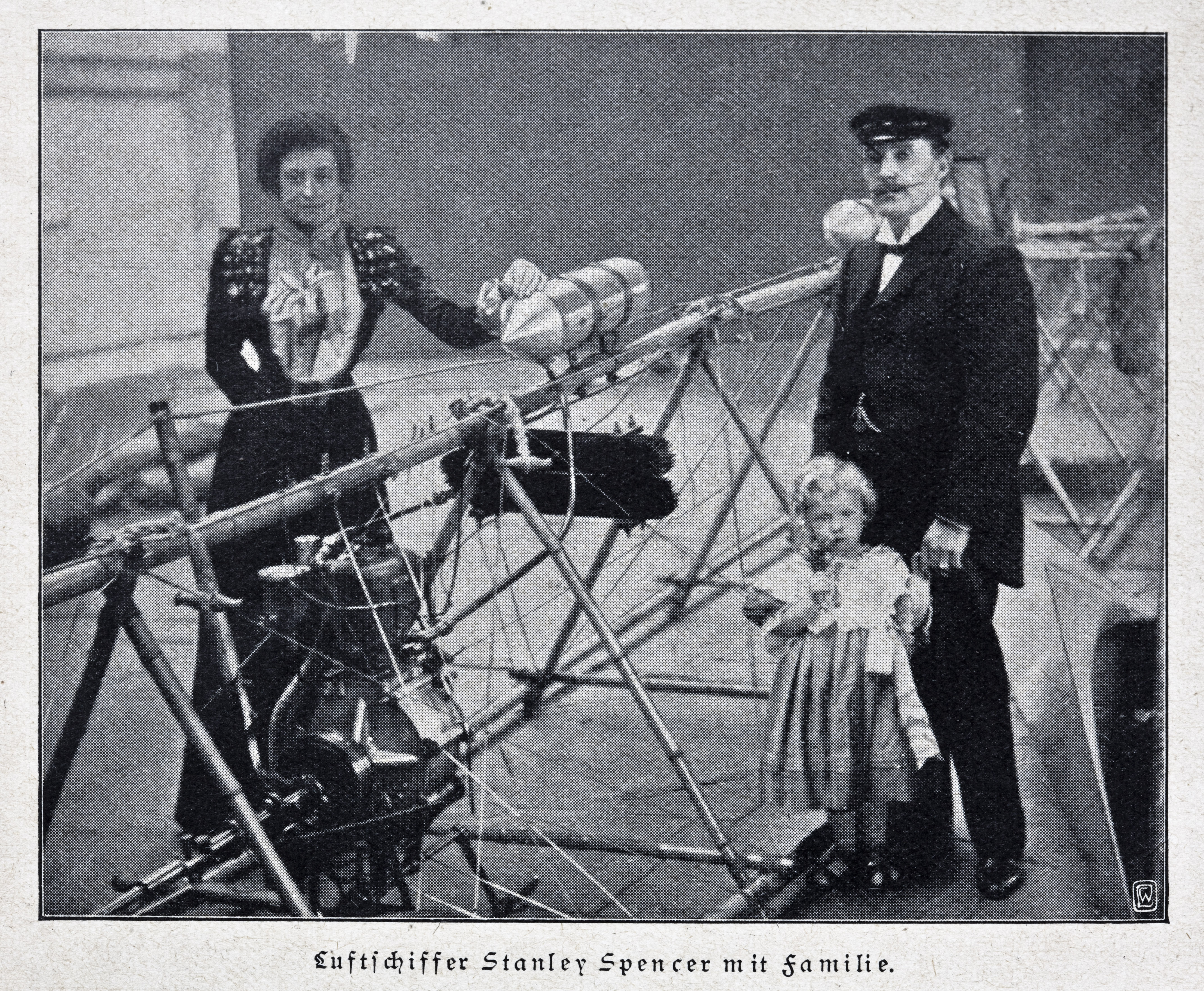 Photograph in the German boulevard magazine Die Woche showing "Luftschiffer Stanley Spencer mit Familie" (Aeronaut Stanley Spencer with family).